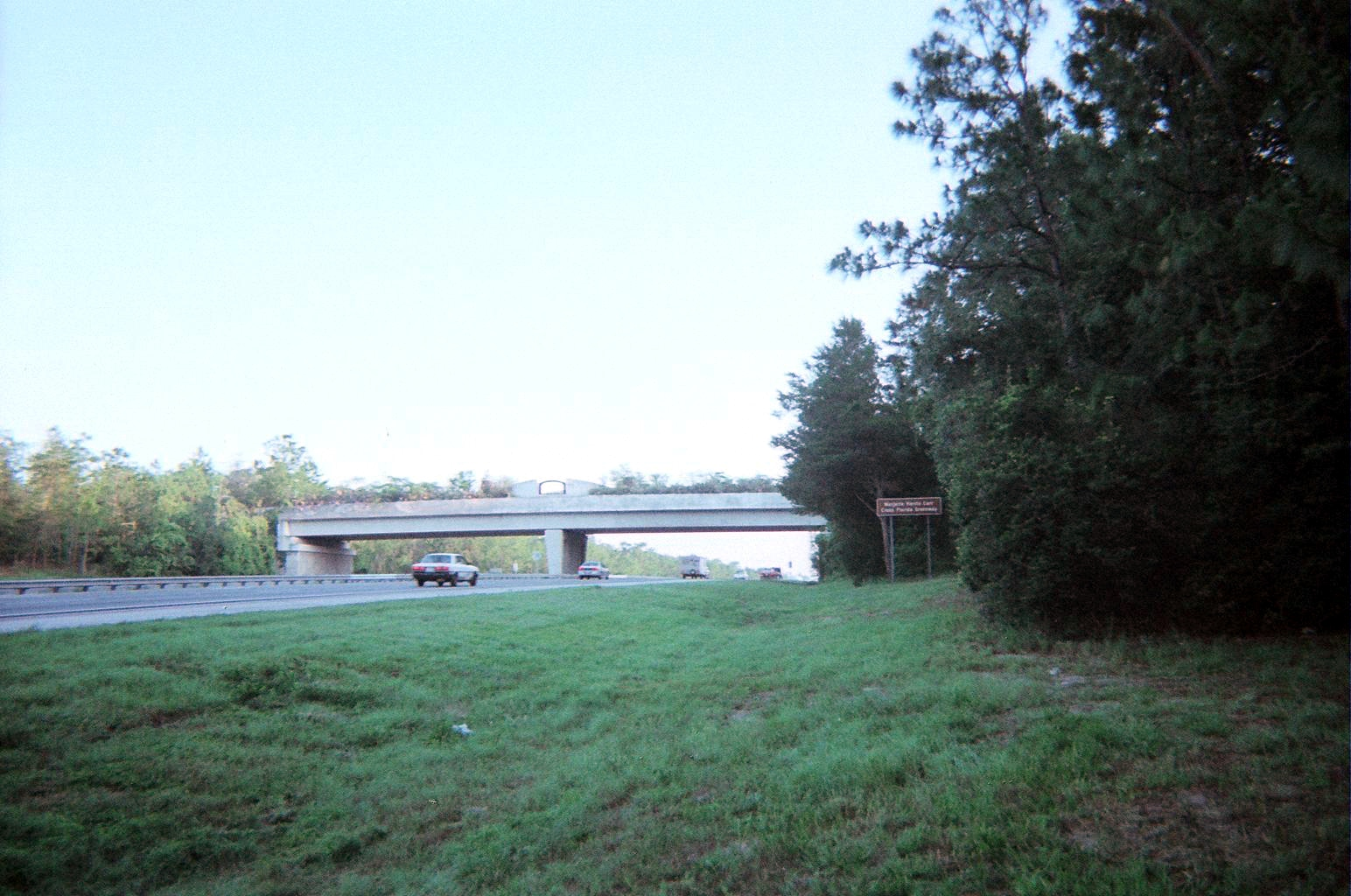 The Cross Florida Greenway Trail pedestrian bridge over Interstate 75 in Florida, between mile markers 342 and 343.